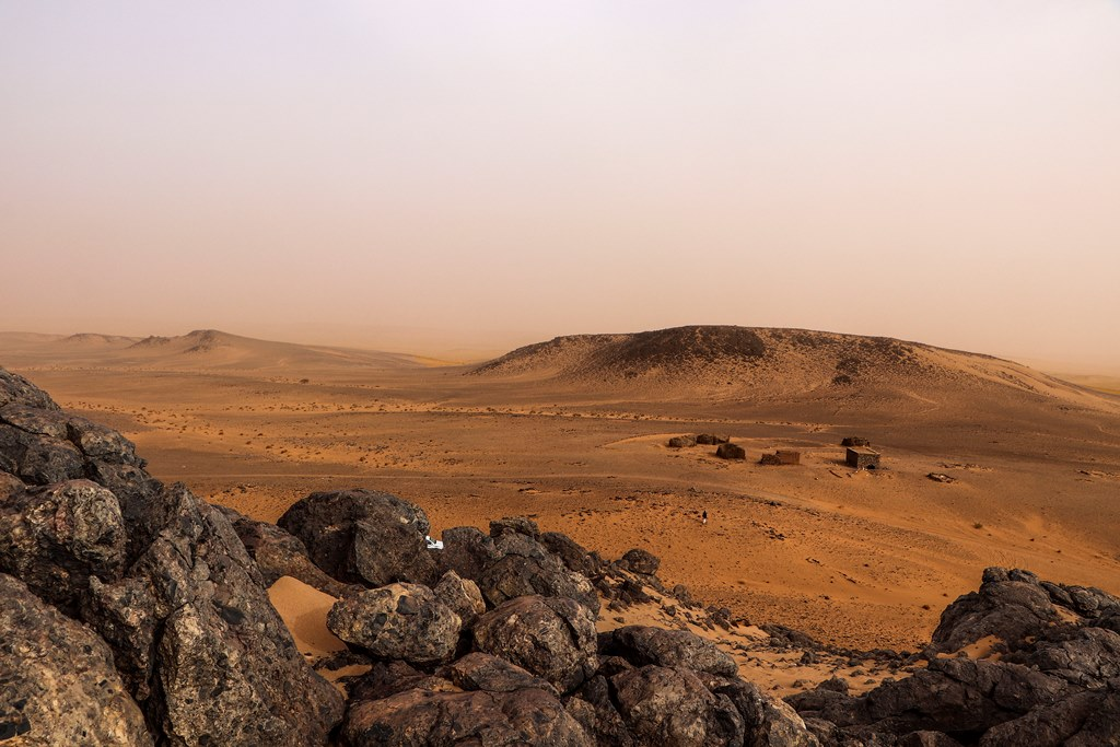 Guelb er Richât, Mauritania